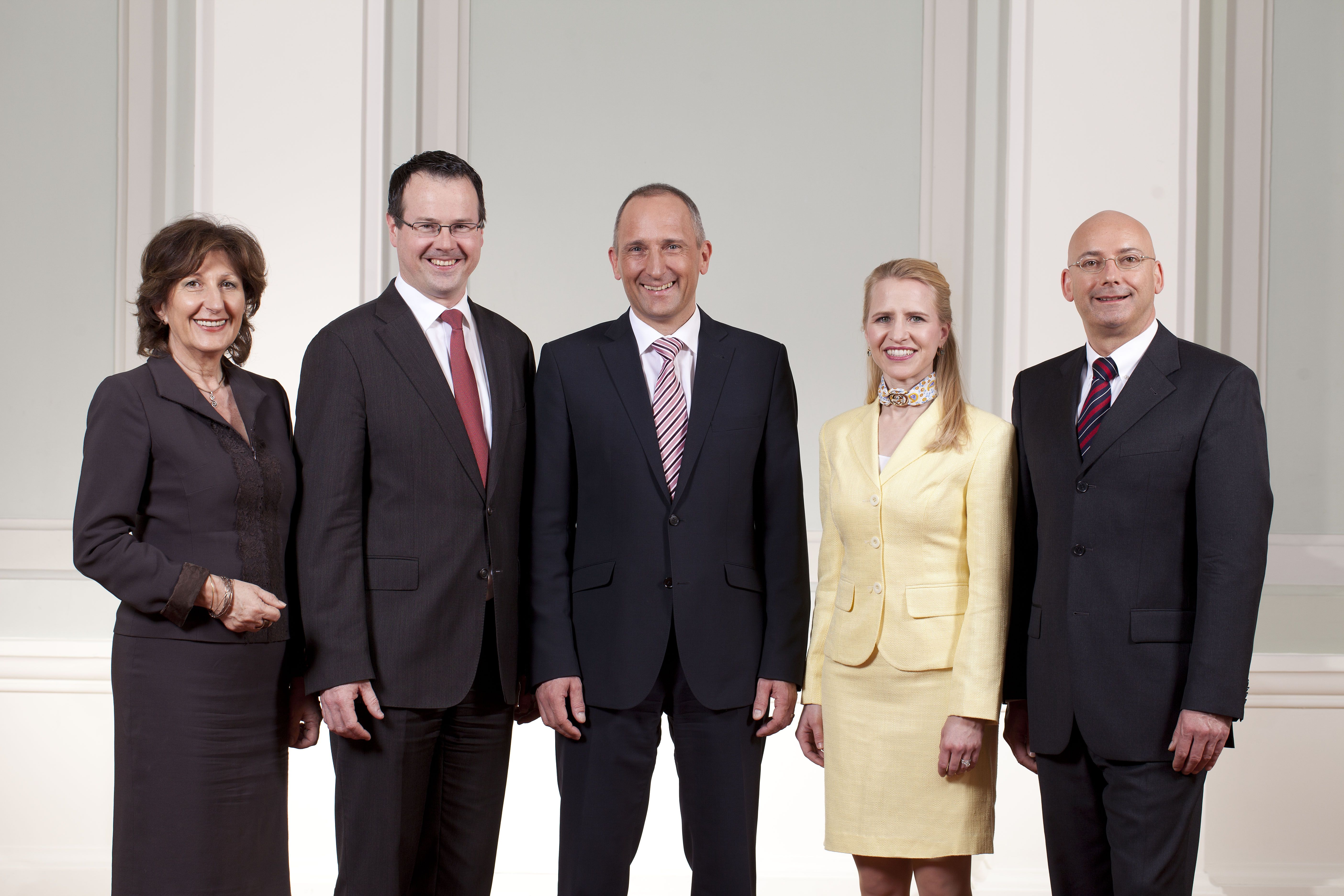 The government of the principality of Liechtenstein at the day of the inauguration. From left to right: Regierungsrätin Marlies Amann-Marxer, Regierungschef-Stellvertreter Thomas Zwiefelhofer, Regierungschef Adrian Hasler, Regierungsrätin Aurelia Frick, Regierungsrat Mauro Pedrazzini.